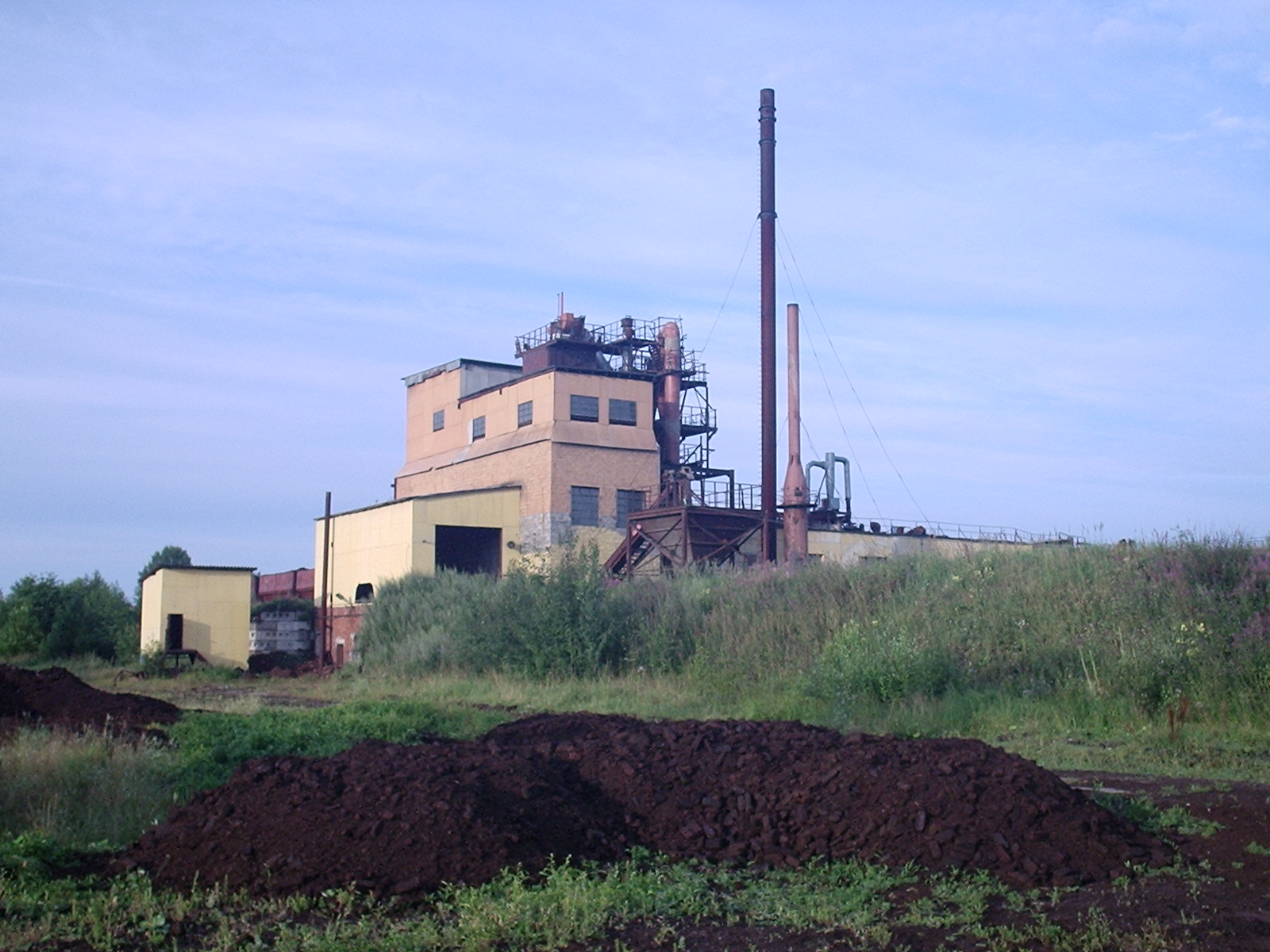 Borisovo, Chagoschensky District, Vologda Oblast; Plant